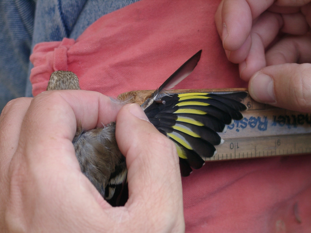 Bird ringing (bird banding) sequence, picture 6: Measuring the 3rd primary for an accurate wing measurement (European Goldfinch, Carduelis carduelis). Cruzinha, Portimão, Portugal.